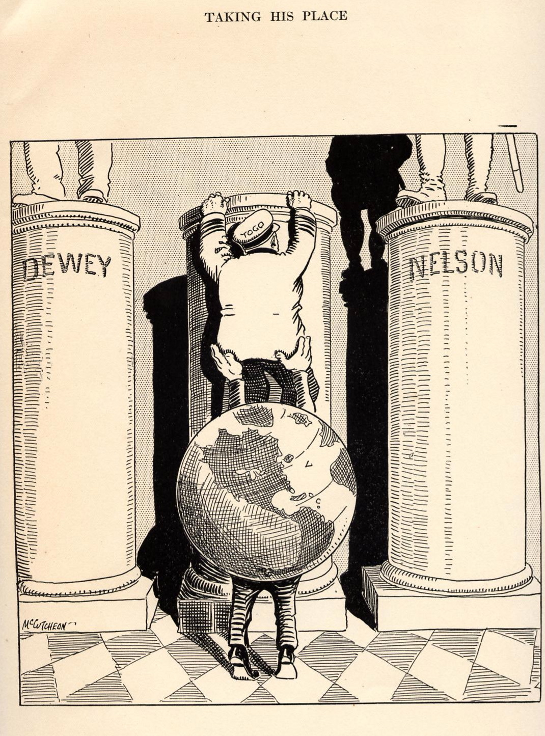 "Taking His Place". Political cartoon showing Japanese admiral Togo (Tōgō Heihachirō) being elevated on to a pedestal (signifying greatness) by the world between Admirals George Dewey and Lord Nelson.